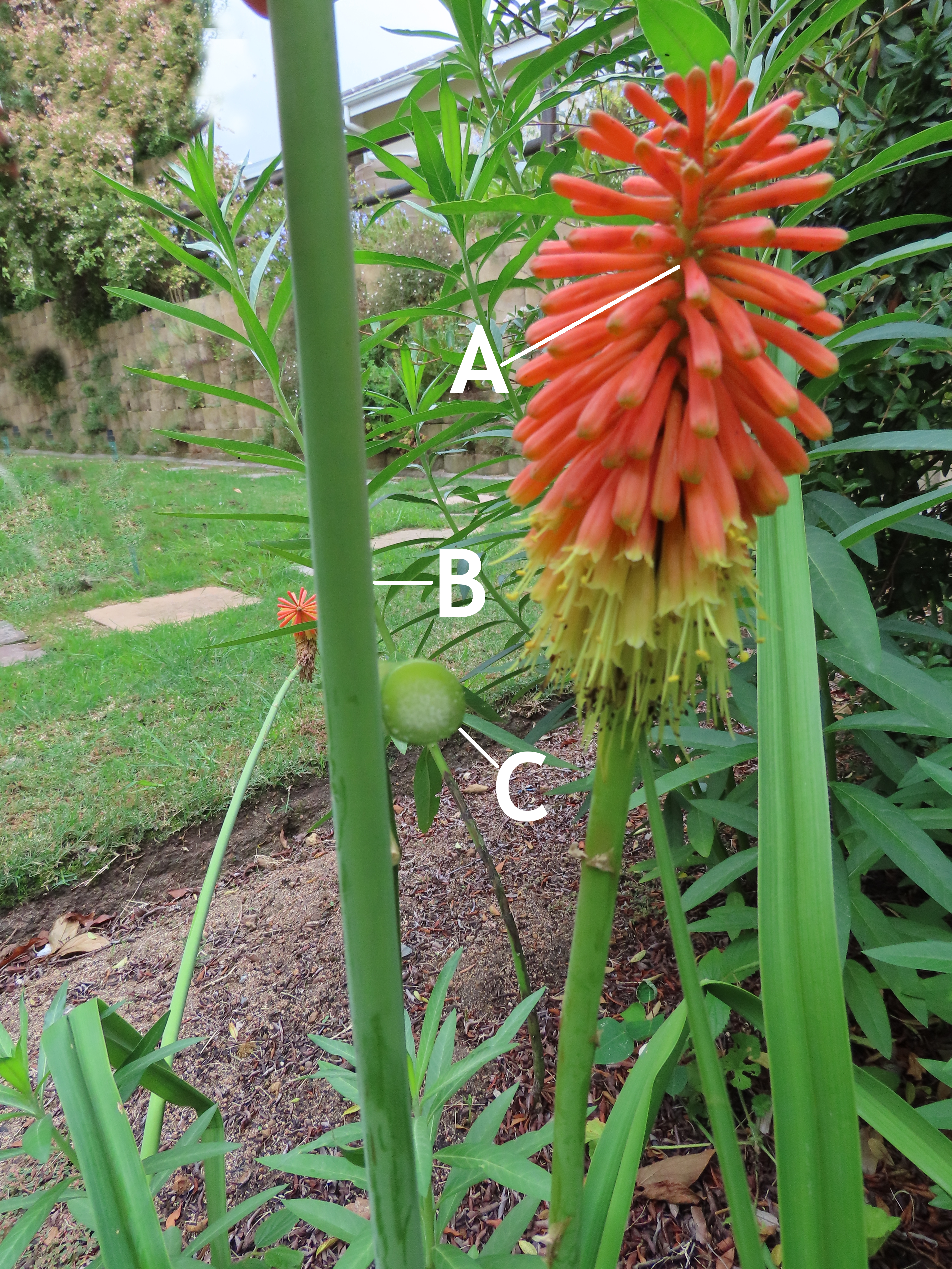 Terete raceme of Kniphofia with a cross section of a peduncle. The intention is to illustrate the term "terete", of which the peduncles of this genus present very clear examples. A: An inflorescence of this plant B: The terete peduncle of another inflorescence of the plant C: A cross section of such a peduncle, practically circular